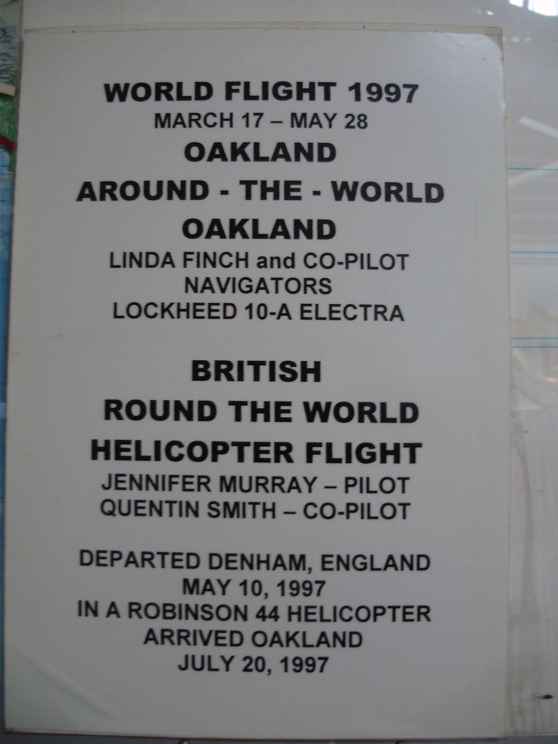 Notice accompanying map of her route.